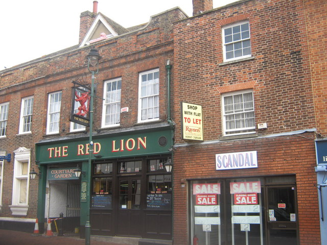 The Red Lion Public House, Sittingbourne On 58 High Street. Has a small plaque beside the name, which reads ' The older part of this ancient inn dates back to the early 15th Century. Tradition has it that (King) Henry V was entertained here on his victorious return after the Battle of Agincourt in 1415'.